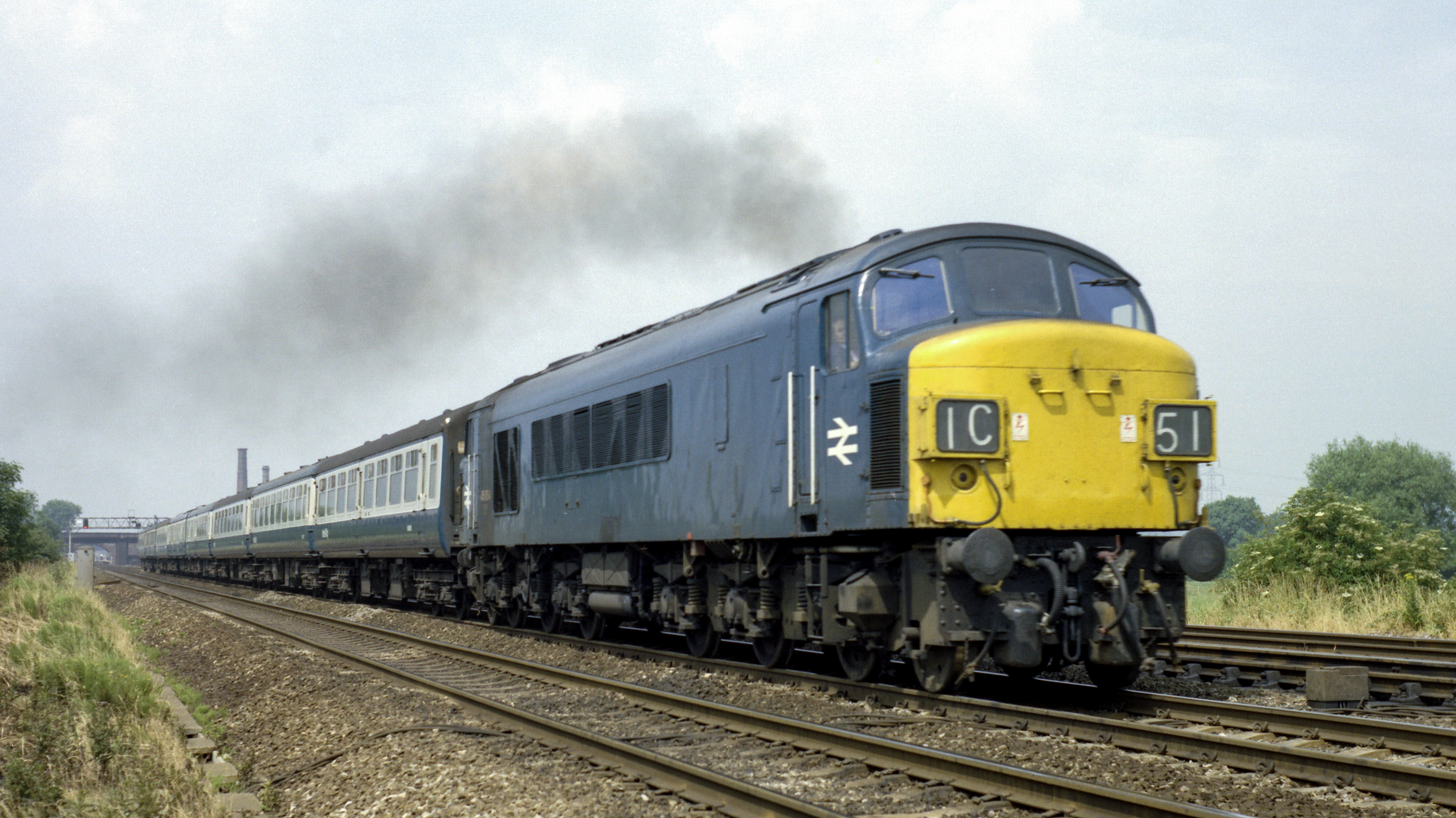 BR Class 45 1Co-Co1 diesel locomotive no.45054 heads south from Loughborough with a passenger train for London St. Pancras, July 1975.